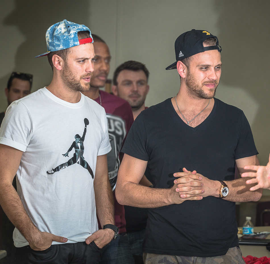 Lukasz Tracz speaking with his team during the commercial shoot for Life In Color's Unleash Tour at a local school in Miami, FL.